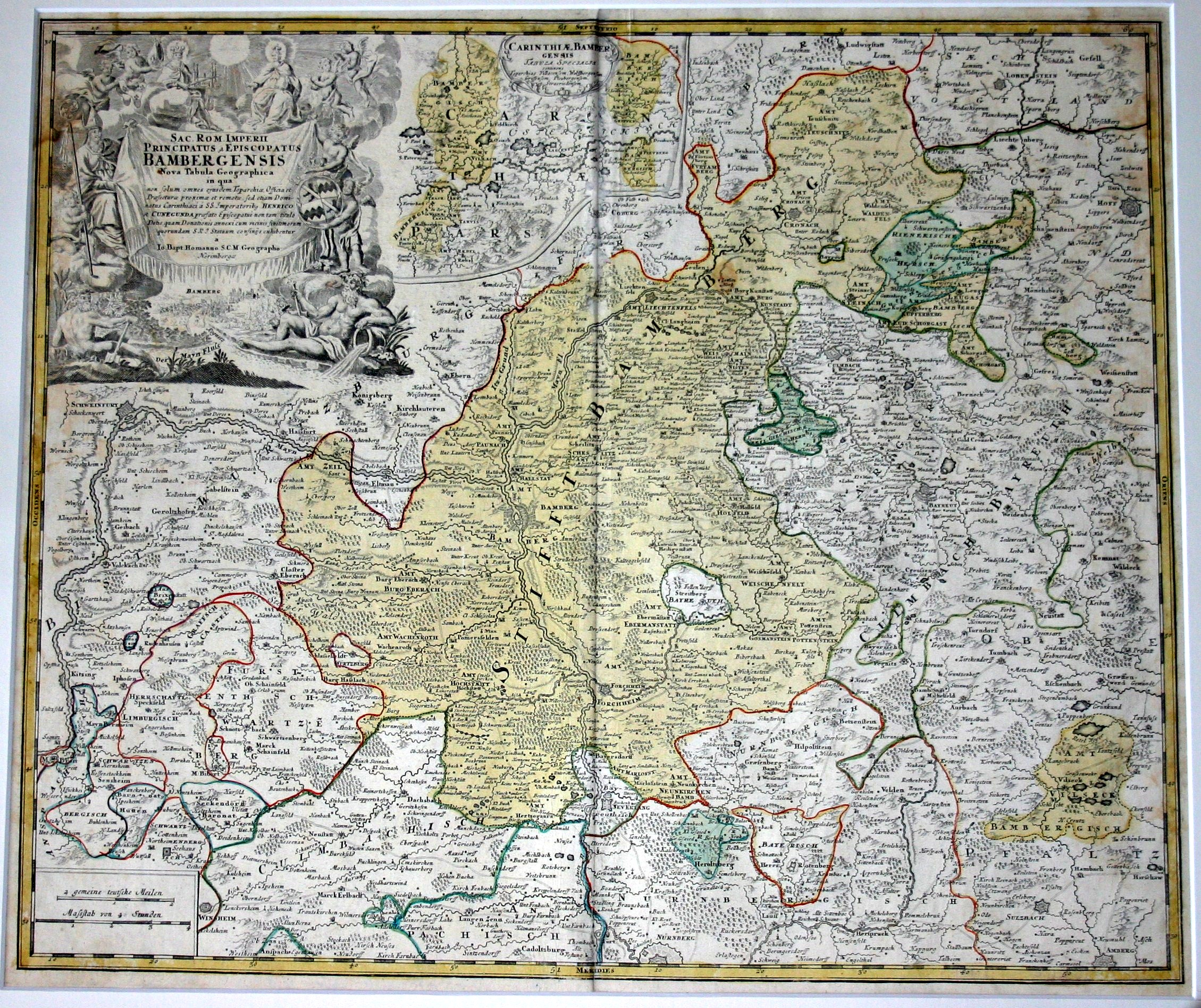 Early 18th-century map by cartographer Johann Baptist Homann showing, in yellow, the Prince-Bishopric of Bamberg (German: Hochstift Bamberg; Fürstbistum Bamberg). The insert at the top left side of the map shows the several exclaves Bamberg possessed in Carinthia.